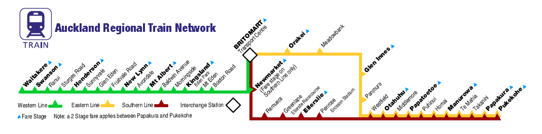 A diagram I made showing the common layout of the Auckland Rail Network. Four new stations have since been added to the network. Sylvia Park Station between Panmure and Westfield, which is not shown and Huapai, Waimauku and Helensville on the West Line after Waitakere. It is in PNG format so that you can update it as and when required to show changes in stations, should further stations be added to the rail network. Boston Road Station has now been closed and replaced with "Grafton Station". The Onehunga line has been reopened and branches off the Southern Line at Penrose. A diagram I made showing the common layout of the Auckland Rail Network. Four new stations have since been added to the network. Sylvia Park Station between Panmure and Westfield, which is not shown and Huapai, Waimauku and Helensville on the West Line after Waitakere. It is in PNG format so that you can update it as and when required to show changes in stations, should further stations be added to the rail network. Boston Road Station has now been closed and replaced with "Grafton Station". The Onehunga line has been reopened and branches off the Southern Line at Penrose.